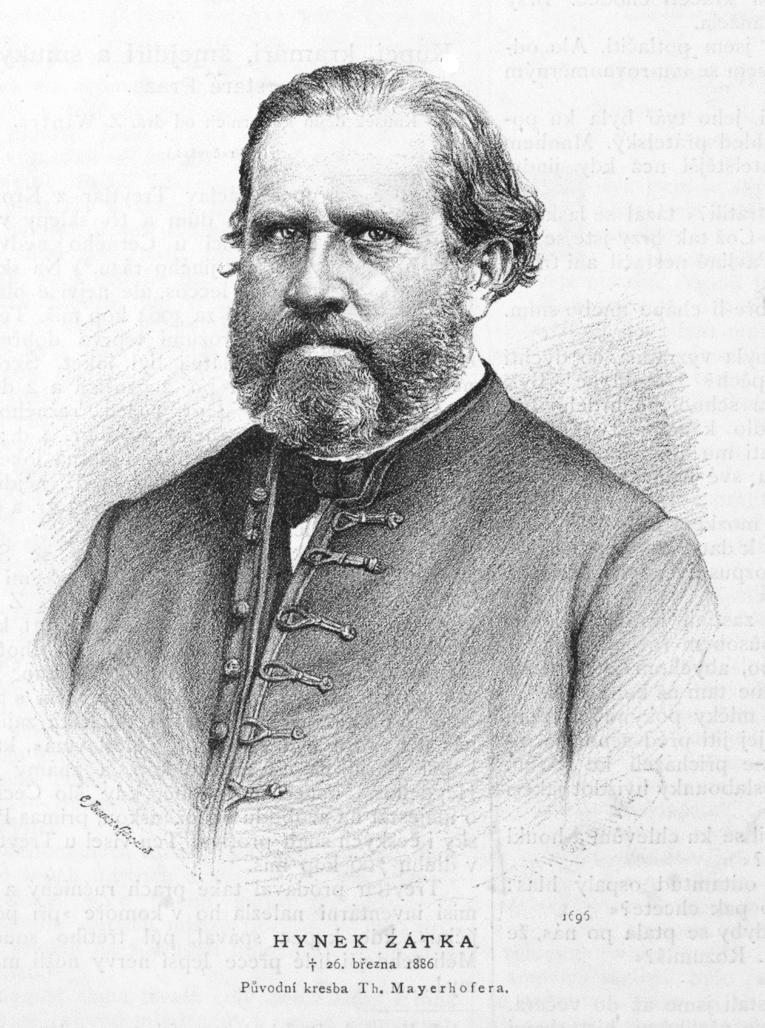 Portrait of Hynek Zátka (1808-1886), Czech entrepreneur and politician.